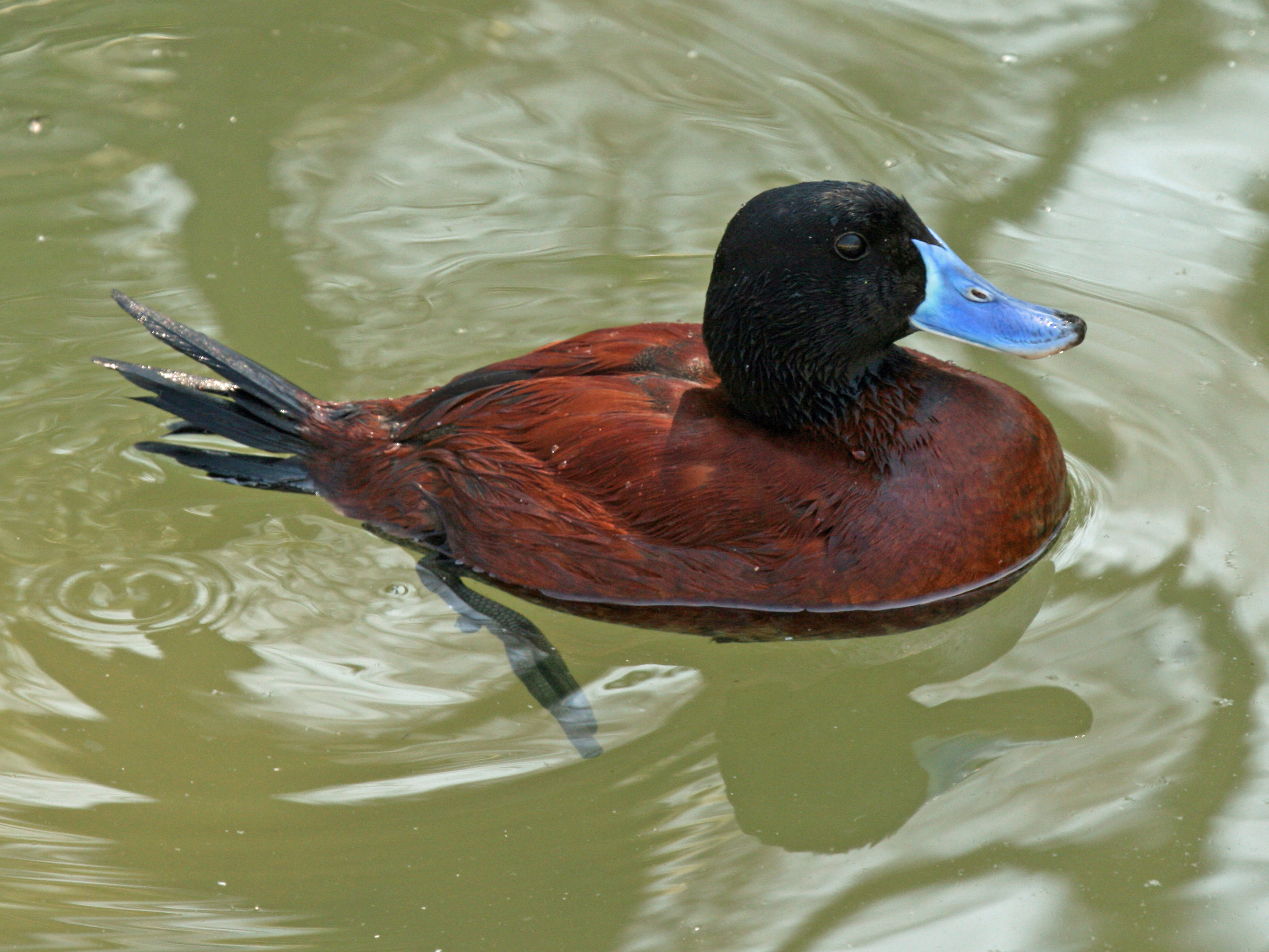 Argentine Blue-bill (Oxyura vittata) at Sylvan Heights Waterfowl Park in Scotland Neck, North Carolina.